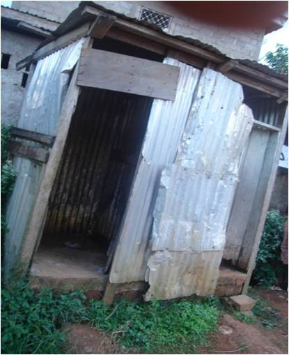 A pit latrine in Yaounde, Cameroon. Photos taken by: Annie-Claude Pial, 2009